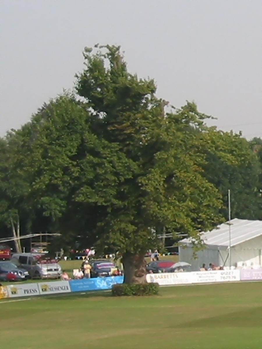 The old lime tree inside the boundary of St Lawrence Ground, Canterbury, UK